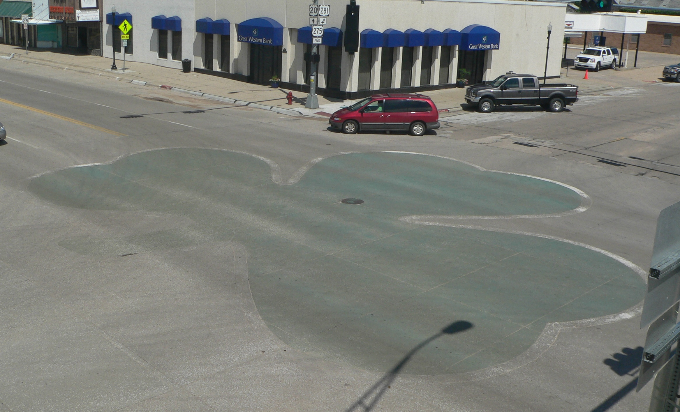 Shamrock painted on pavement at intersection of 4th and Douglas Streets in O'Neill, Nebraska.